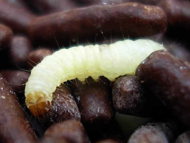 Indian Meal Moth (Plodia interpunctella) - larva. Location: Ballans, 17160 (Charente-Maritime) FranceKeywords: pest, food, chocolate